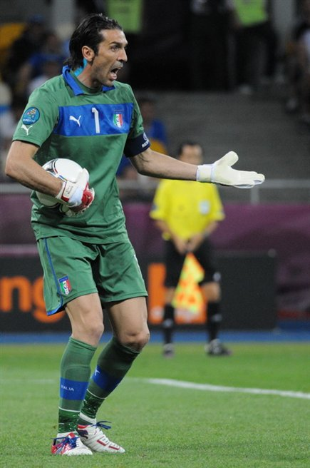 Gianluigi Buffon at Euro 2012 match against England